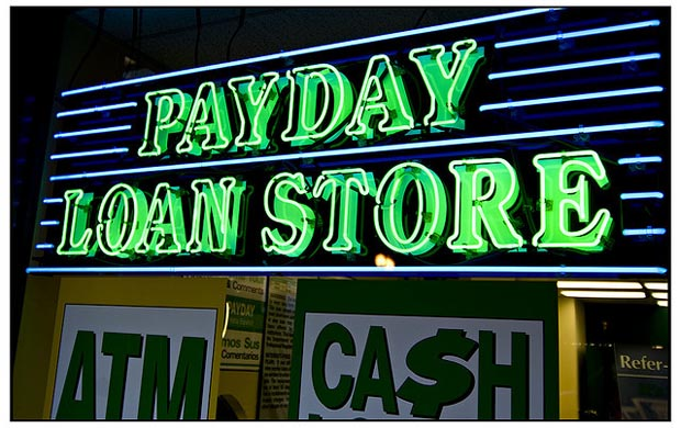 A Payday loan store in Texas.